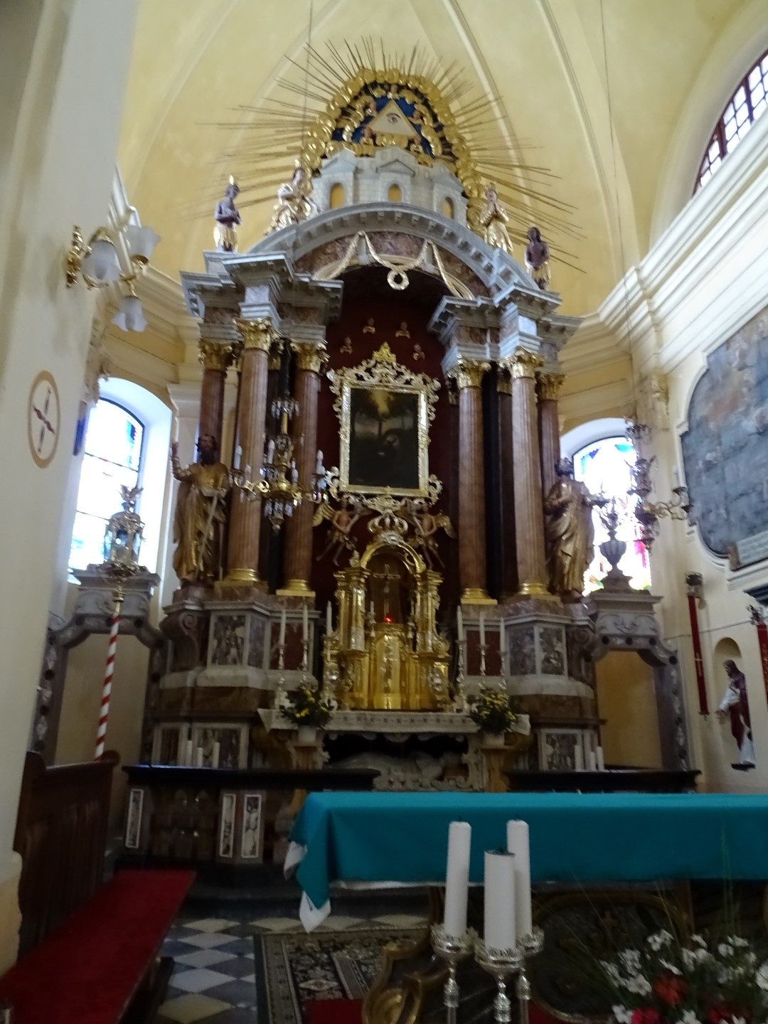 Church of St. Francis Xavier, Radmirje - The main altar